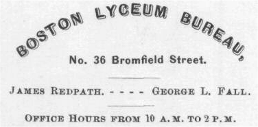 Logo for the Boston Lyceum Bureau (Boston, Massachusetts). Detail of ad for George MacDonald: "Boston Lyceum Bureau, no. 36 Bromfield Street. ... Boston, January 1, 1872. We have made an arrangement by which George MacDonald, the famous Scotch-English author, will visit the United States, under our management, during the season of 1872-3. ..."